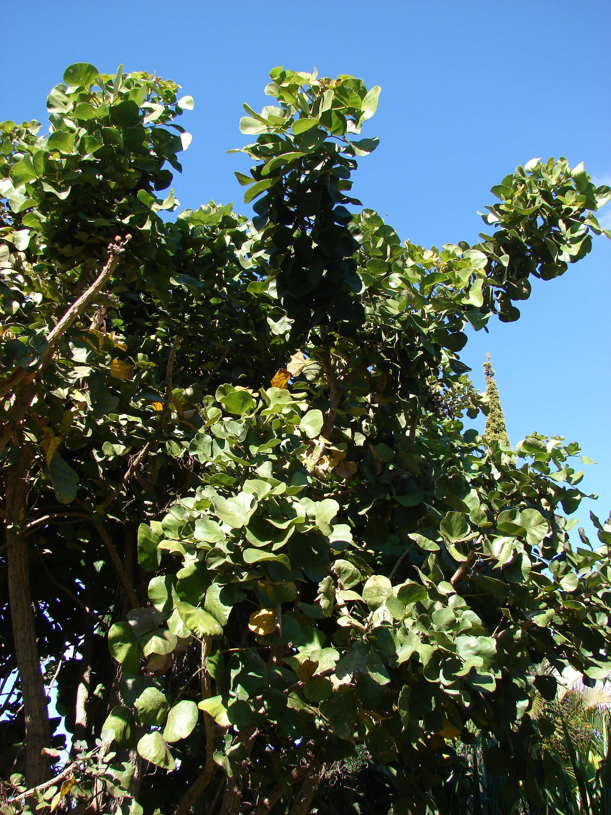 Erythrina sp. (leaves). Location: Maui, Enchanting Floral Gardens of Kula